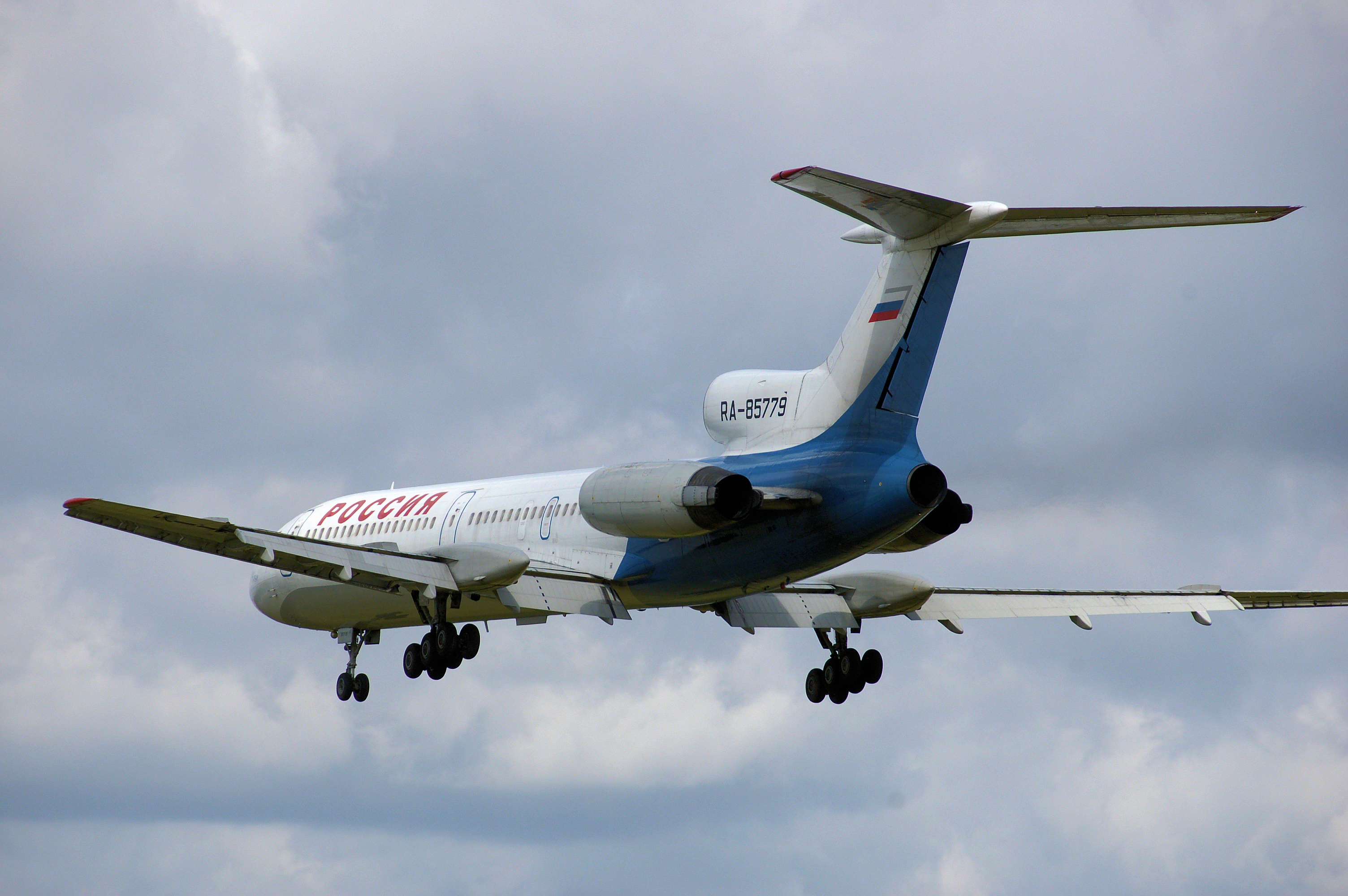 Rossiya - Russian Airlines Tu-154M (RA-85779) landing at London Heathrow Airport.